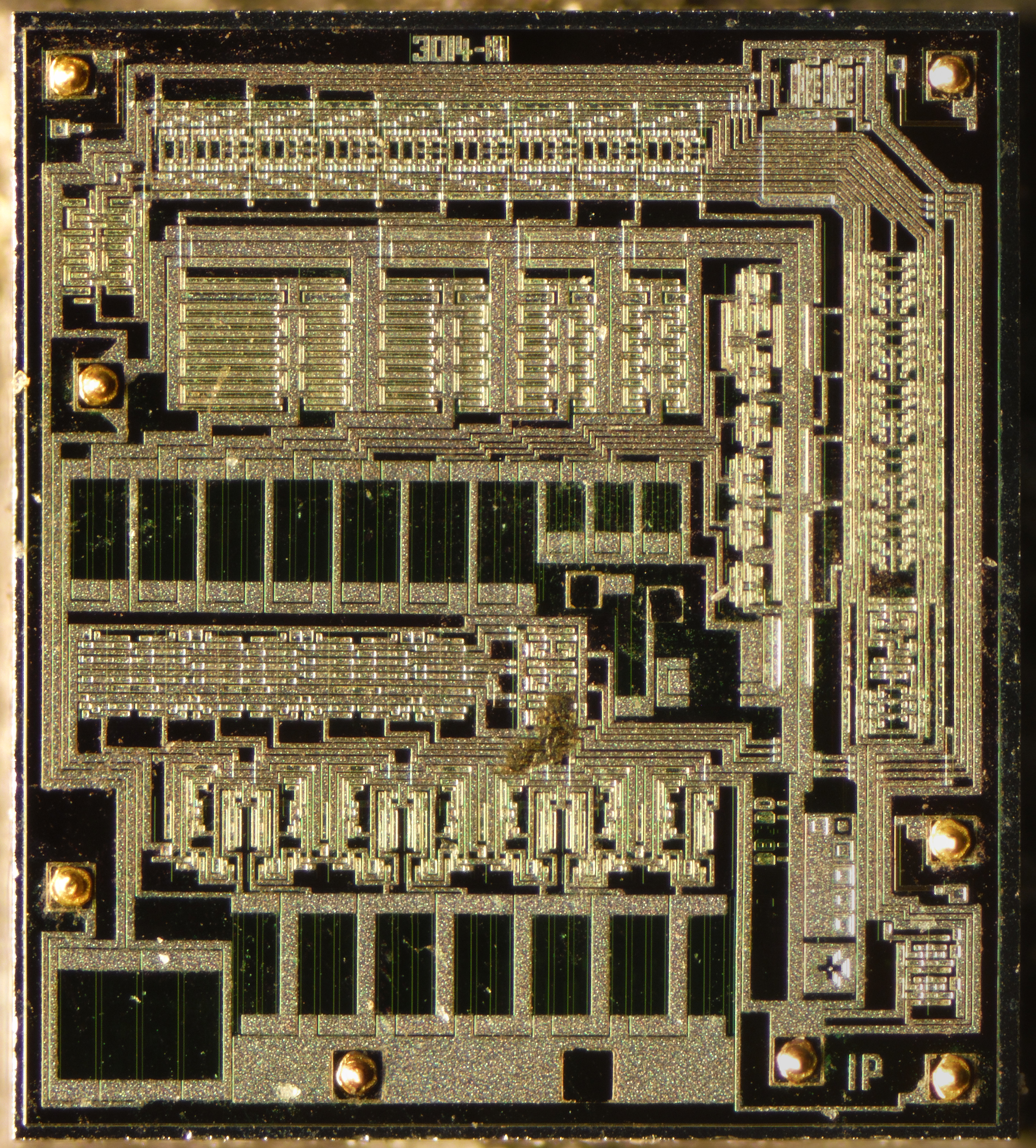 Yamaha Y3014B sound chip